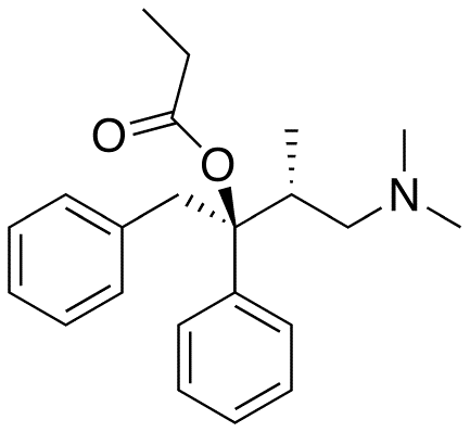 2d molecular structure of Dextropropoxyphene